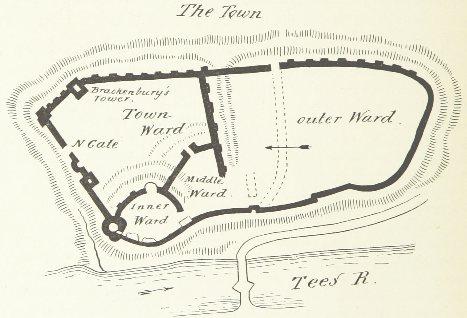 Plan of Barnard Castle taken from: Title: "The Castles of England: their story and structure ... With ... illustrations and ... plans" Author: MACKENZIE, James Dixon - Sir, Bart Contributor: MACNAIRN, J. Shelfmark: "British Library HMNTS 10369.v.7." Volume: 02 Page: 386 Place of Publishing: London Date of Publishing: 1897 Publisher: W. Heinemann Issuance: monographic Identifier: 002322661 Note: The colours, contrast and appearance of these illustrations are unlikely to be true to life. They are derived from scanned images that have been enhanced for machine interpretation and have been altered from their originals. If you wish to purchase a high quality copy of the page that this image is drawn from, please order it here. Please note that you will need to enter details from the above list - such as the shelfmark, the page, the book's volume and so on - when filling out your order. Explore: Find this item in the British Library catalogue, 'Explore'. Open the page in the British Library's itemViewer (page: 386) Download the PDF for this book Click here to see all the illustrations in this book and click here to browse other illustrations published in books in the same year. Please click on the tags shown on the right-hand side for other ways to browse the illustrations.